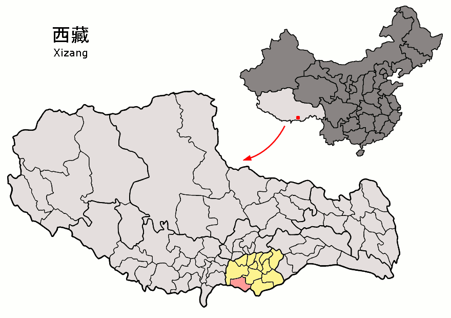 Location of Lhozhag County (pink) and Shannan Prefecture (yellow) within Tibet (Xizang) autonomous region of China